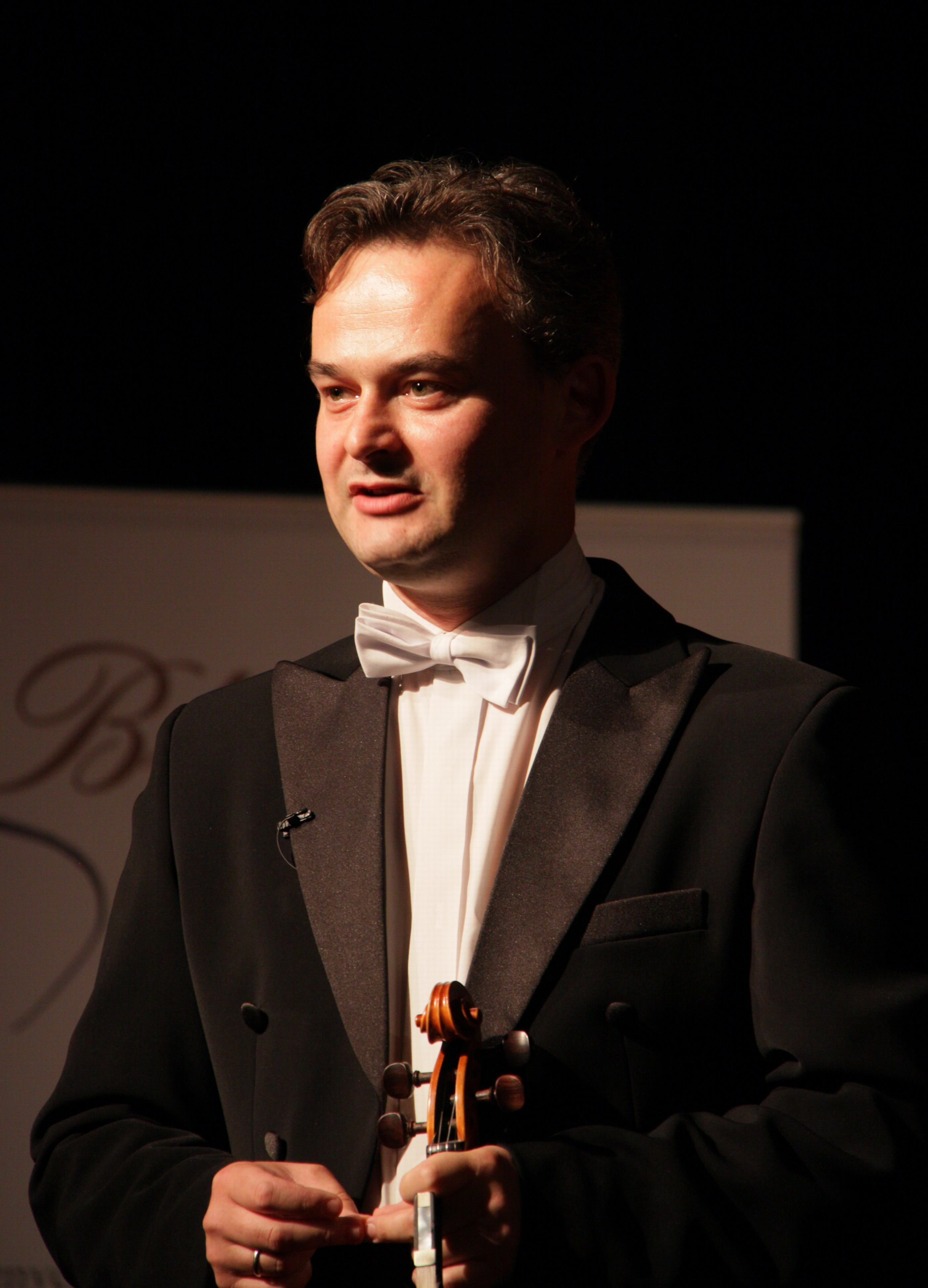 Filip Jaślar, Polish violinist, Grupa MoCarta.